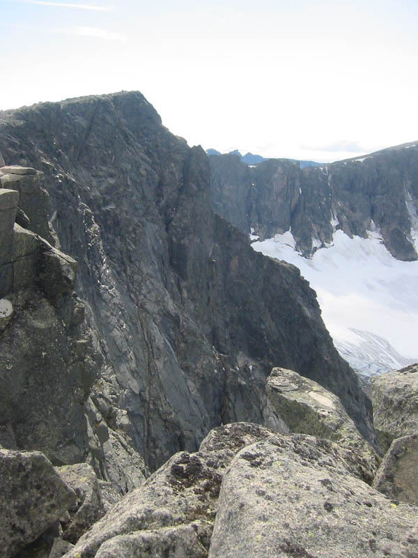 I shot the photo on August 7. 2006. View from Mugna towards the two highest summits.